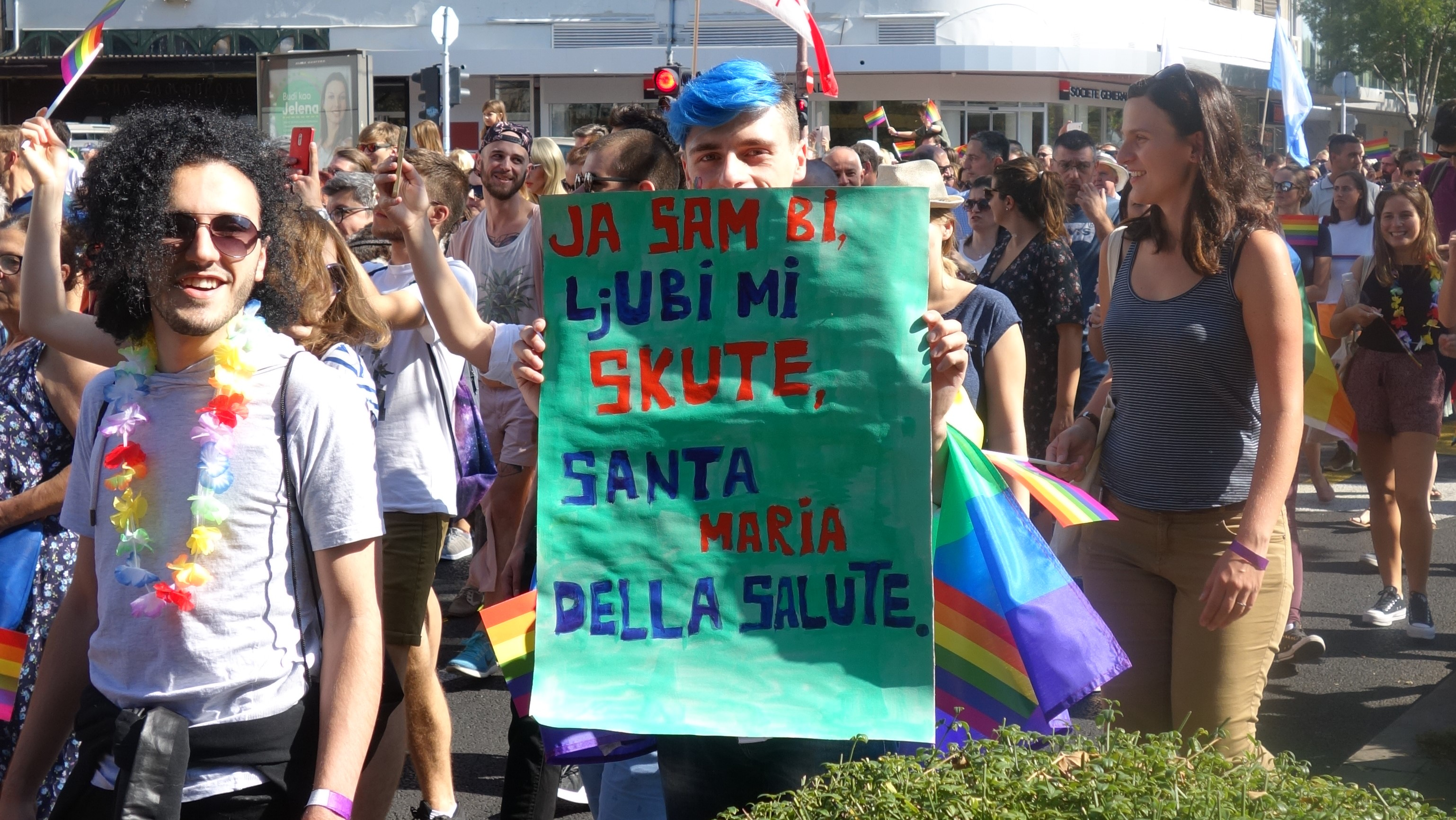 Belgrade Pride parade named "Say YES" took place on September 16th 2018, with over 1000 participants. Protest sign: I am Bi, Kiss my dress, O, Maria della Salute, Blessed.